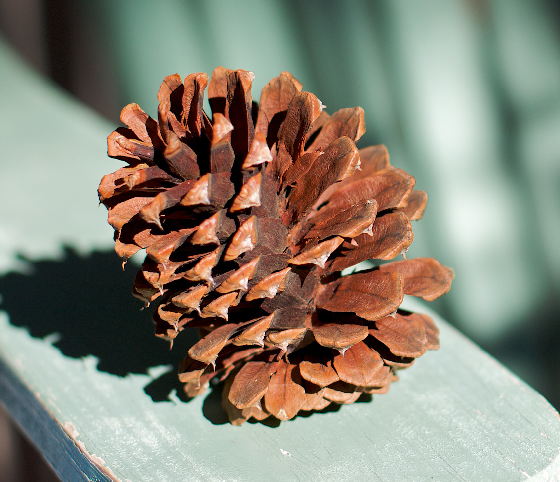 Pinus ponderosa var. brachyptera cone. Near Strawberry Mountain, Arizona.